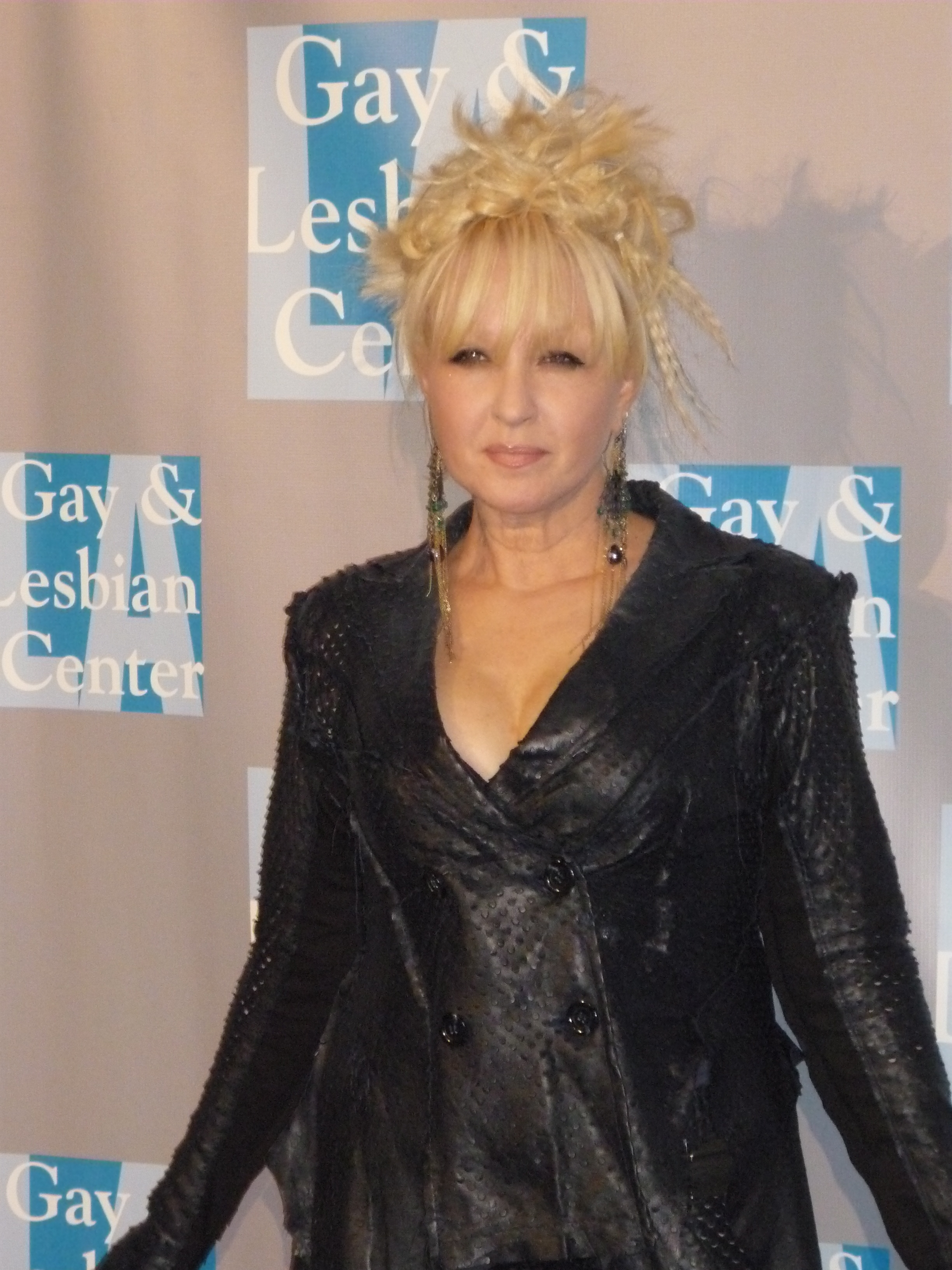 Cyndi Lauper at An Evening With Women event